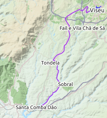 Trace of Ecopista do Dão - walking and cycling path